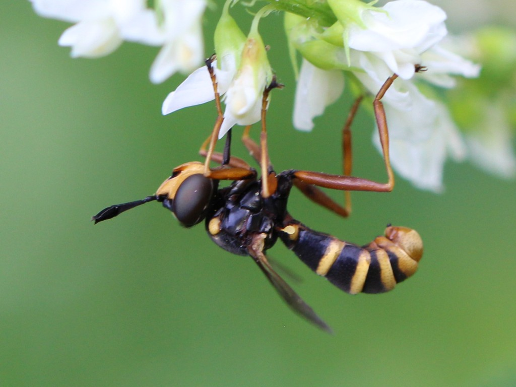 Conops quadrifasciatus